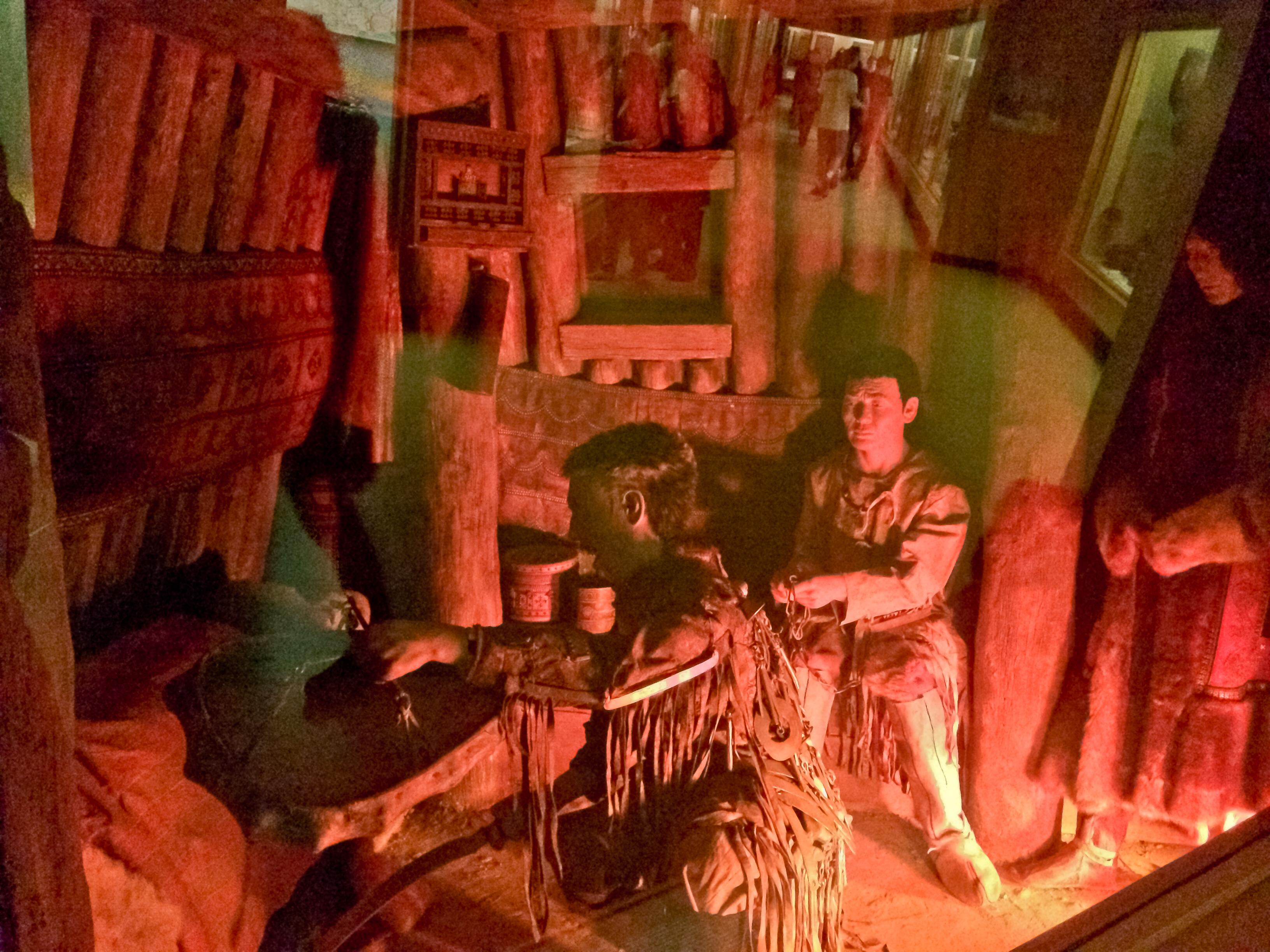 Diorama of a Yakut Shaman performing a healing ritual, Stout Hall of Asian Peoples, American Museum of Natural History